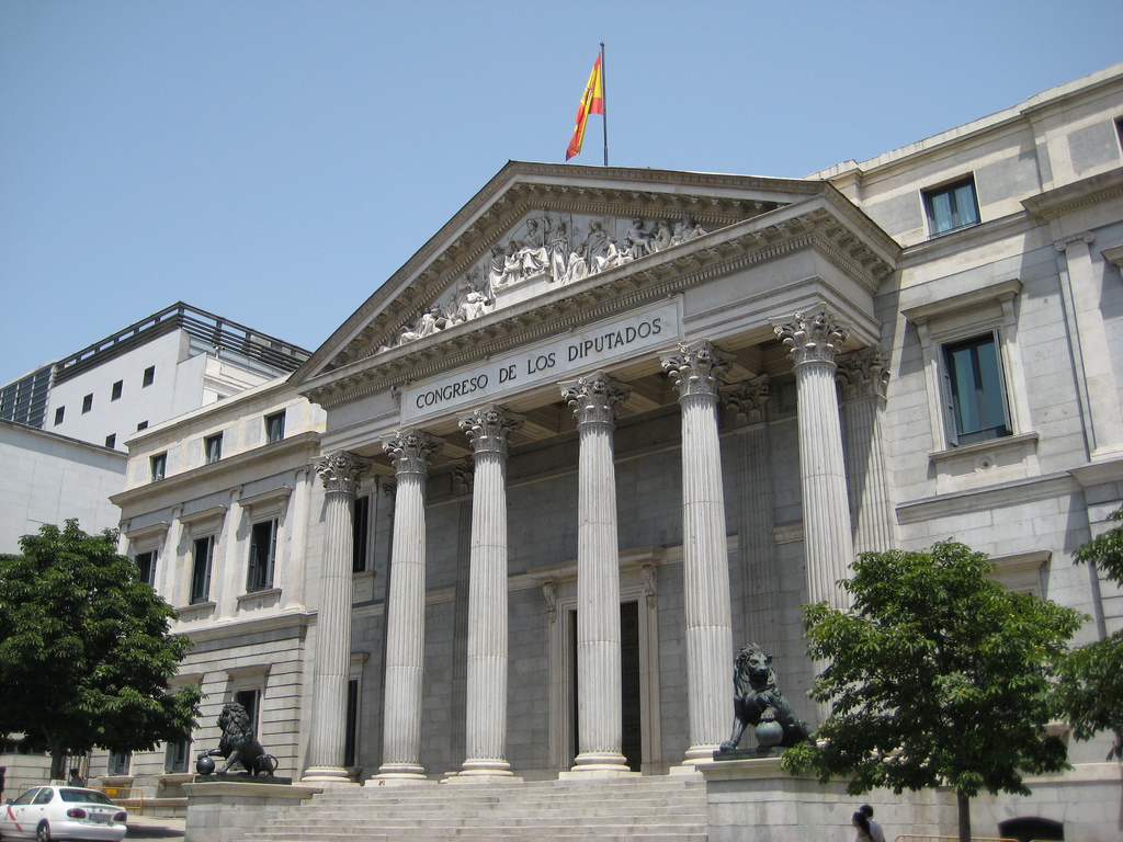 Palacio de las Cortes (Inventory)Native namePalacio de las Cortes de MadridLocationMadrid, Spain.Coordinates40° 25′ 00″ N, 3° 41′ 59″ W Established1843–1850Web page control : Q9054619 VIAF: 173679168 ULAN: 500302409 LCCN: sh2013000847 GND: 4228303-6 BNE: XX189659 WorldCat institution QS:P195,Q9054619IMG_0180